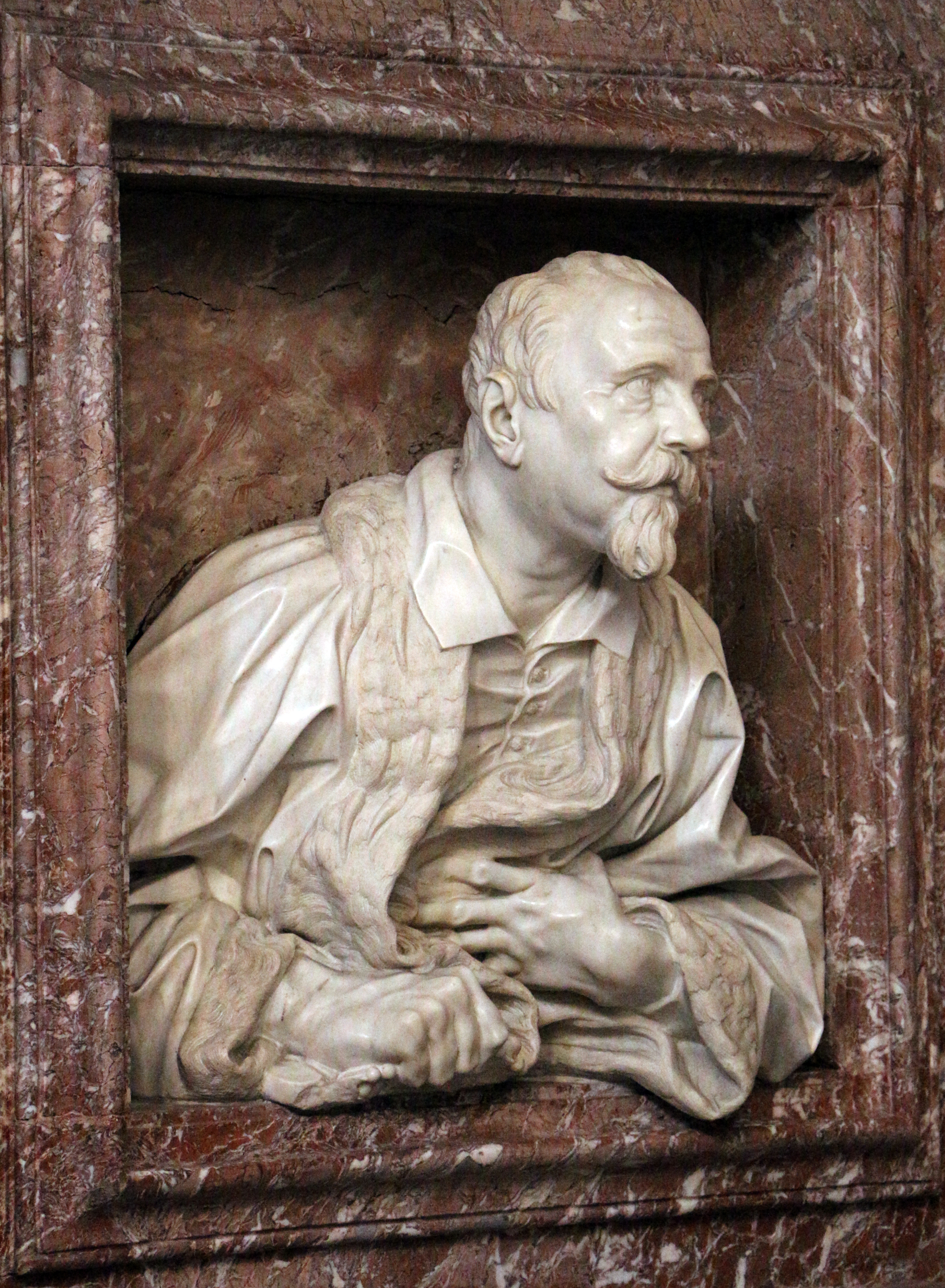 San Lorenzo in Lucina (Rome) - Interior